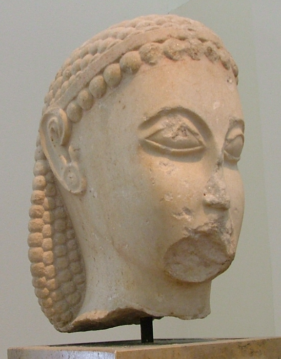 Head of a Kouros. Found in Athens, in the Kerameilkos, near the Dipylon Gate. The fragments belong to a colossal statue. Island marble.